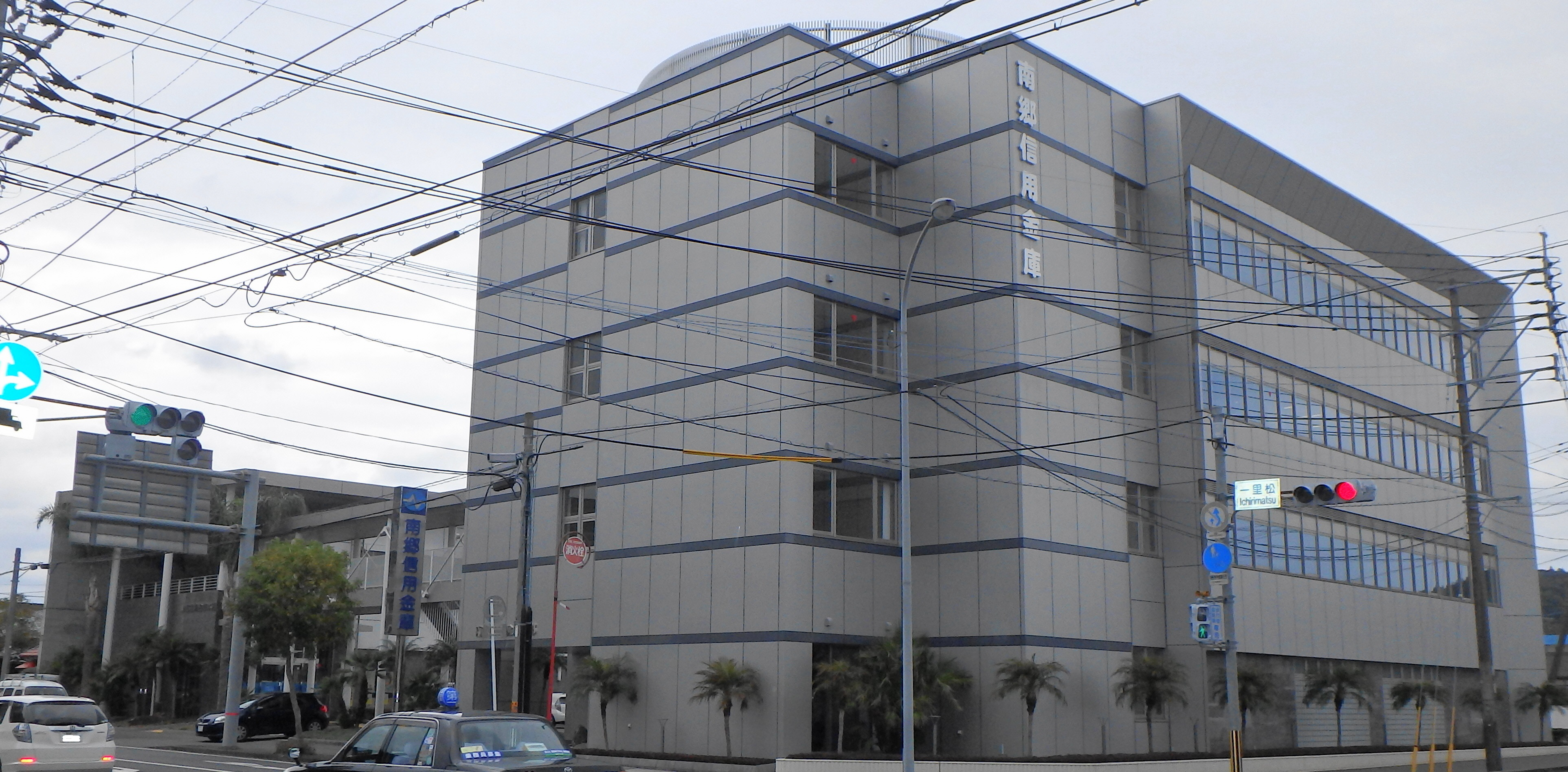 Head store of Nangō shinkin bank,Miyazaki prefecture,Japan